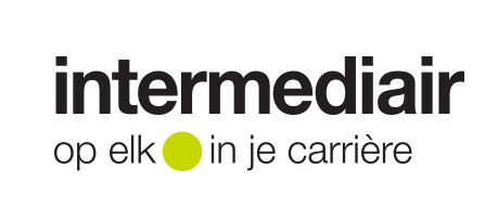 The logo of Dutch magazine Intermediair.